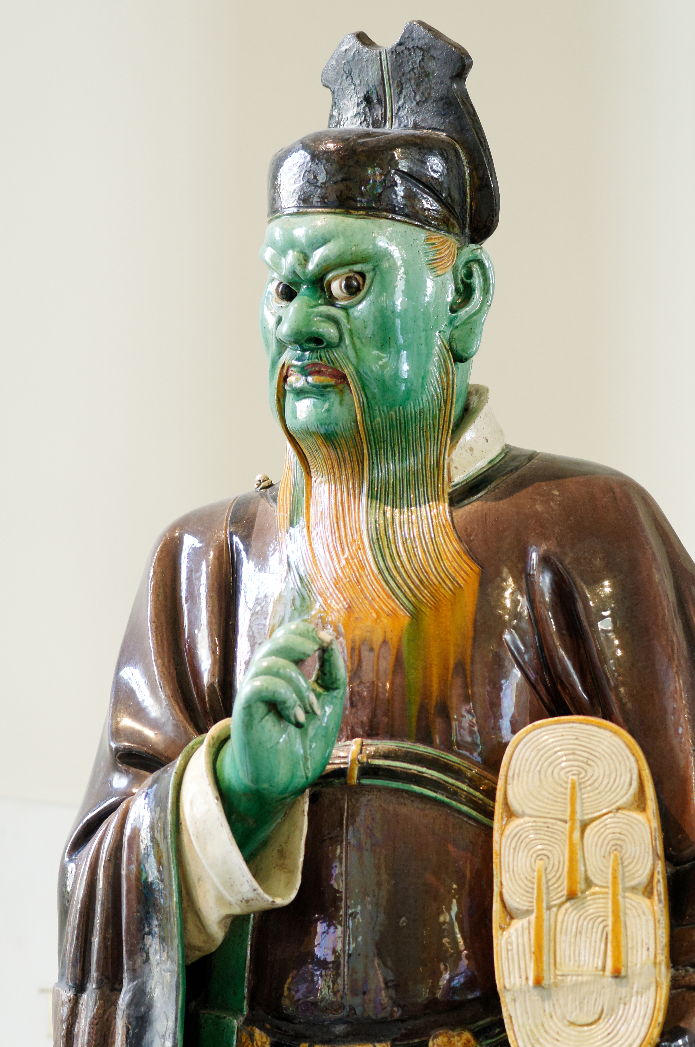 An assistant to the Judge of Hell, figure from a judgement group (perhaps the same as OA 1938.5-24.115), Ming dynasty. Possibly made in Shanxi.